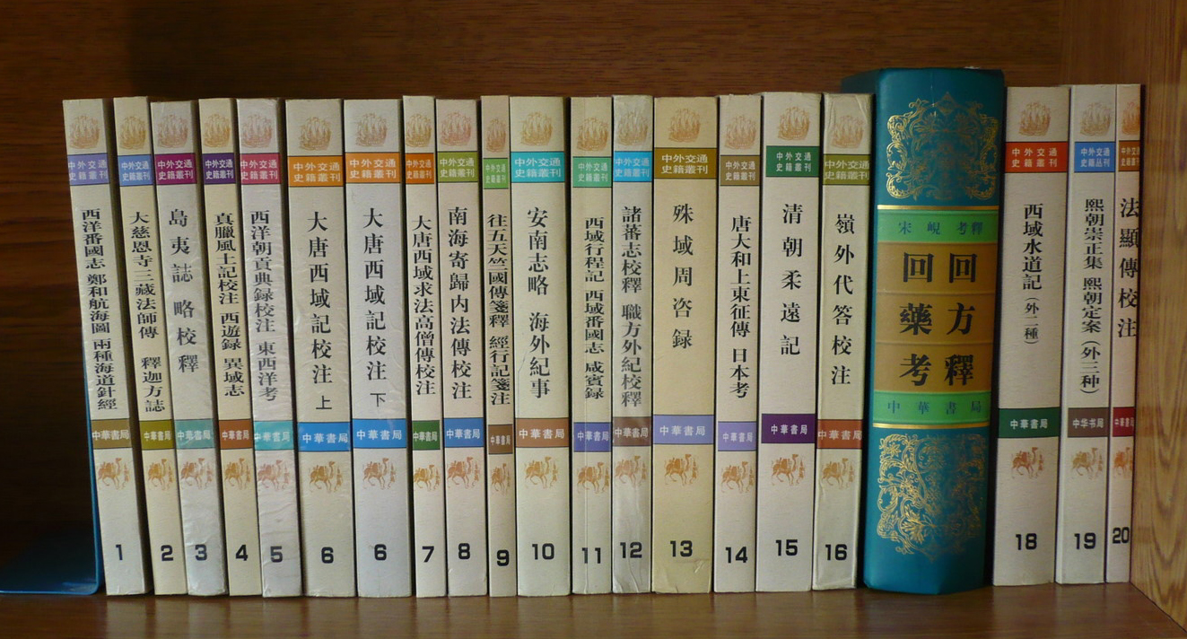 Collecion of Chinese Historic books on foreign relations